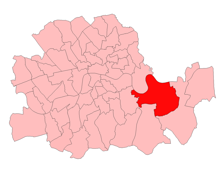 A map of Greenwich constituency within the London County Council area, as it existed from 1918 to 1949.